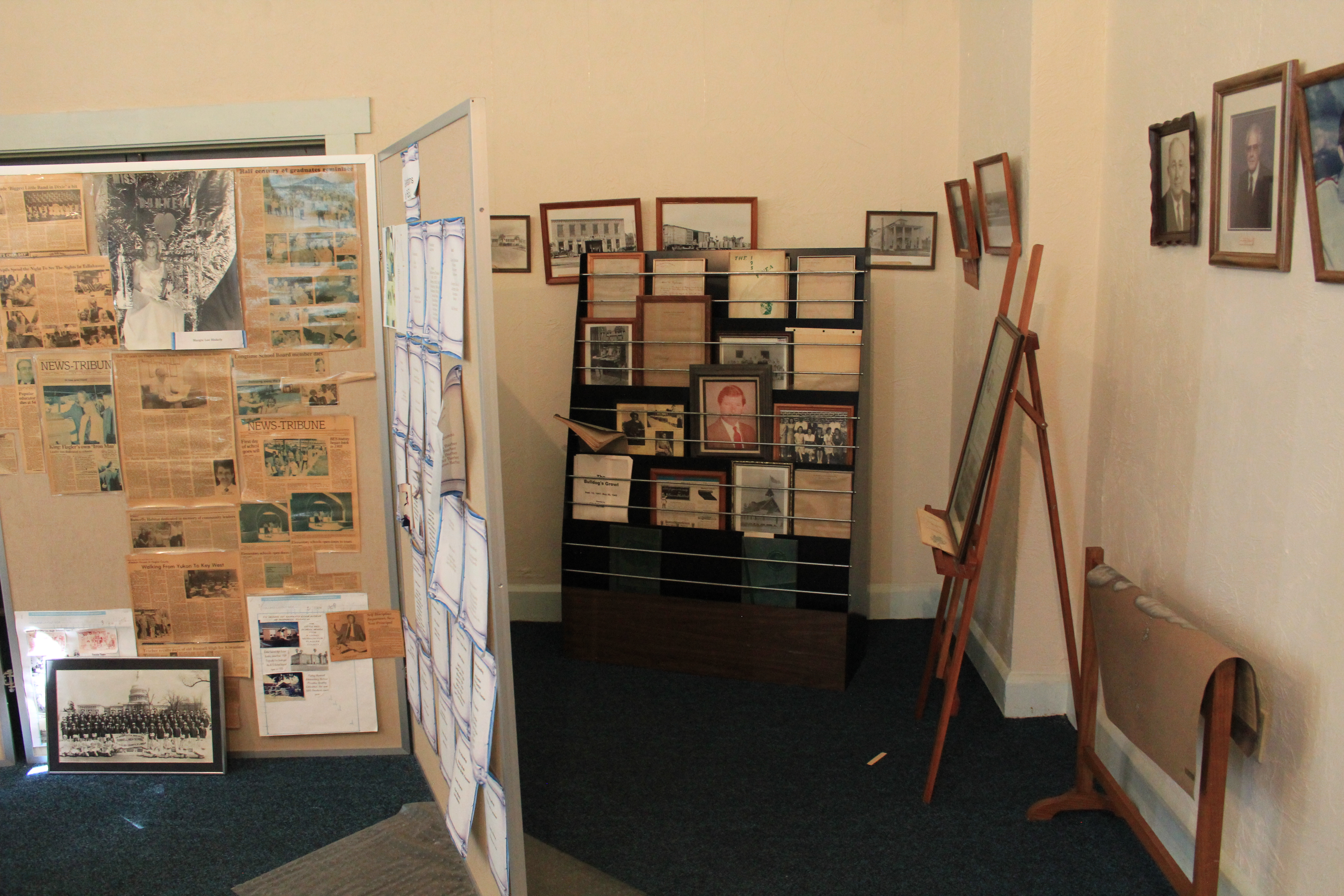 The Agriculture Vocational Building - Articles and pictures in back room